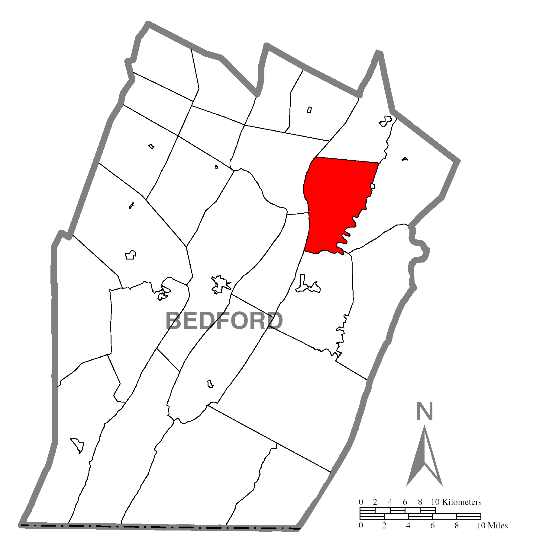 A map of Bedford County showing Hopewell Township, Pennsylvania (alternate) highlighted on the map.